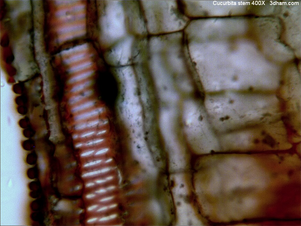 Cucurbita Stem LS